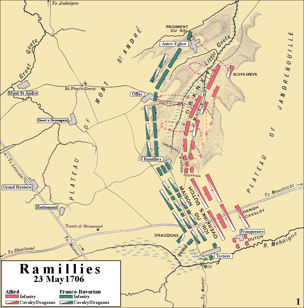 Battle of Ramillies, initial attack. Based on map in G. M. Trevelyan's England under Queen Anne, vol. II